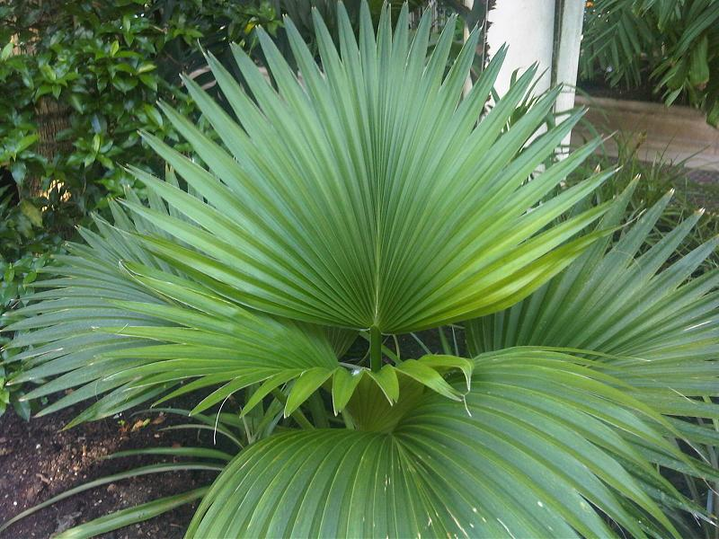 Pritchardia glabrata in Kew Gardens, England.